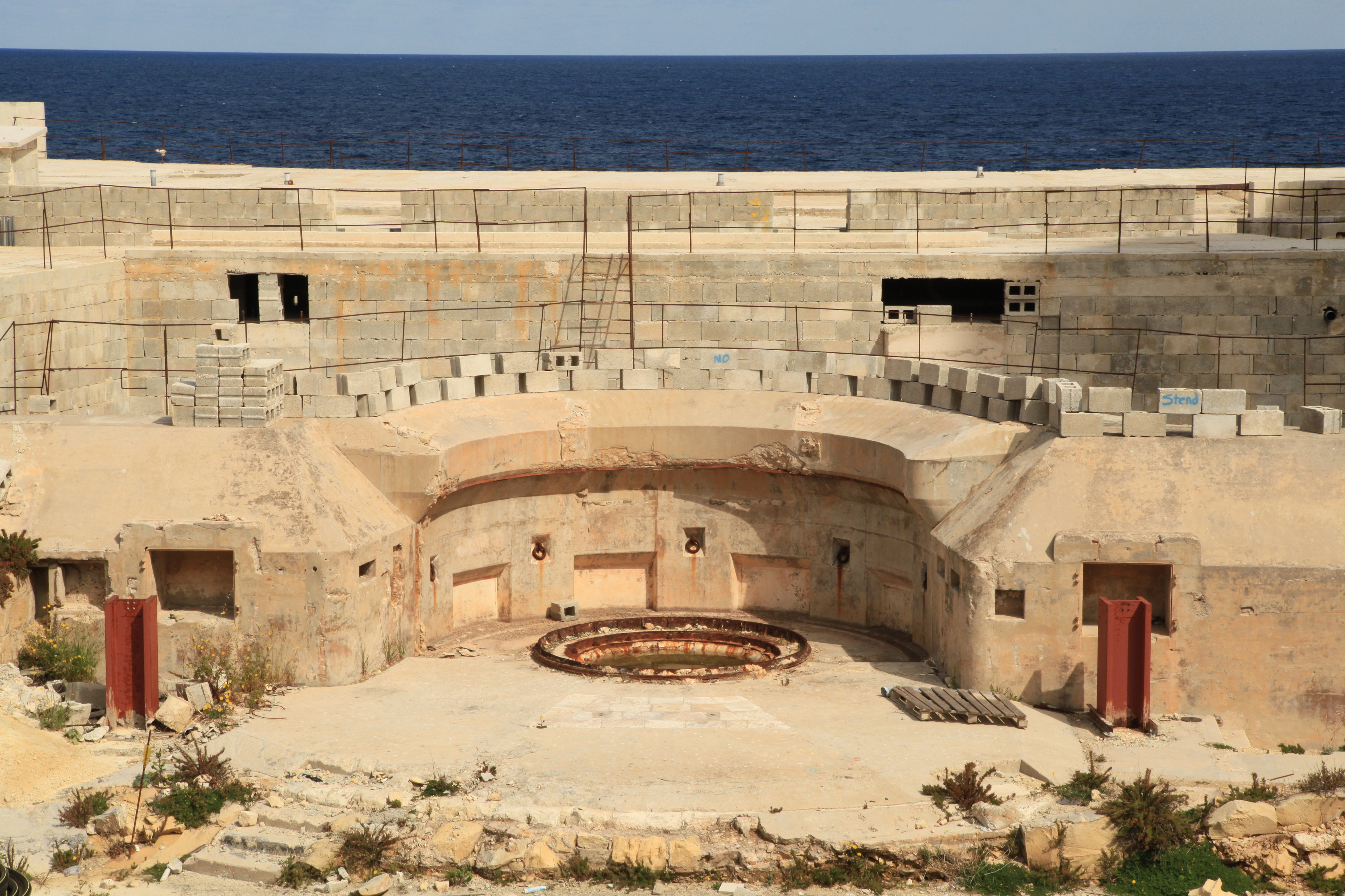 Tigné Point outer trail in Sliema, Malta